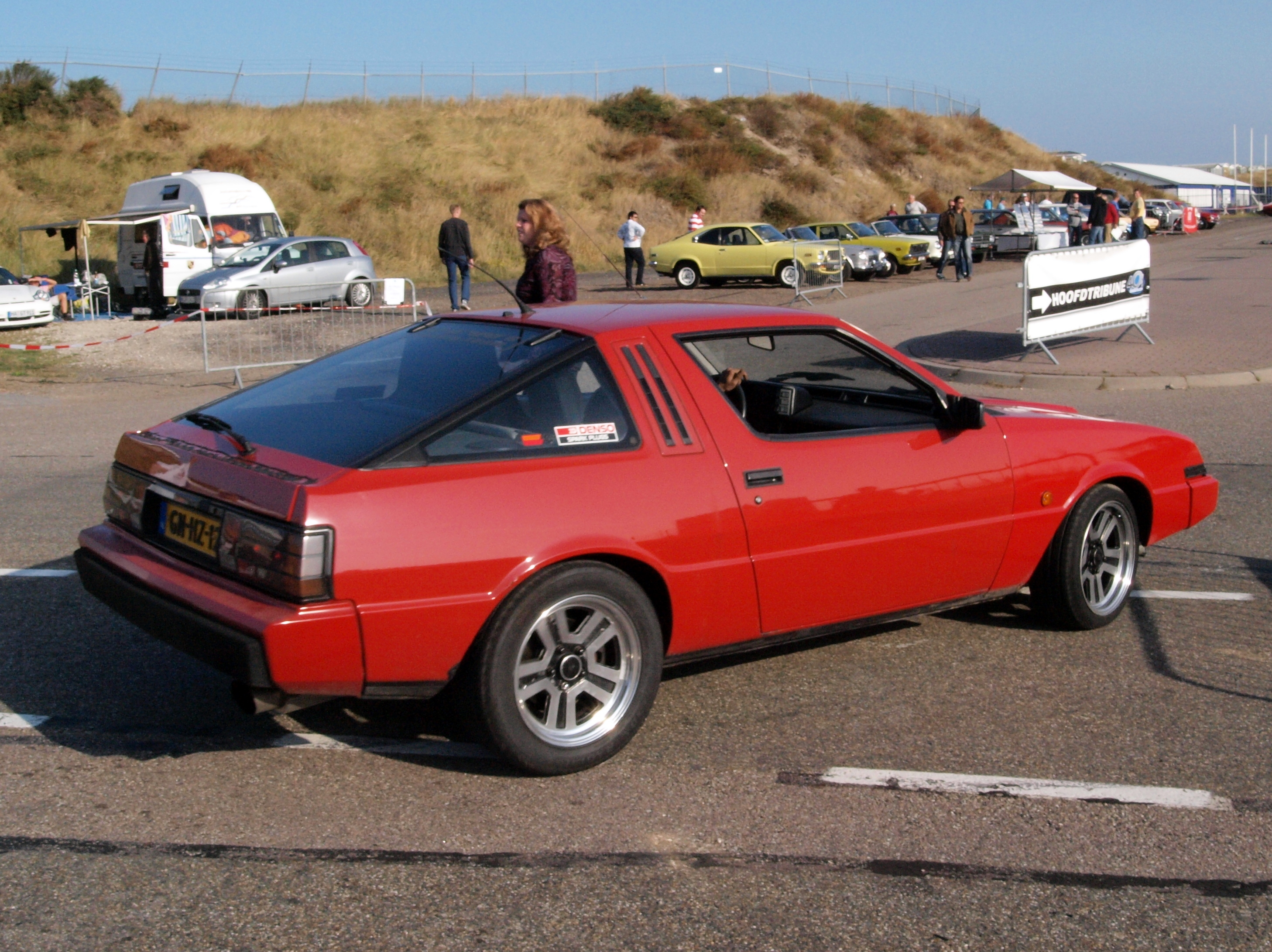 Photographed at the Nationaal Oldtimer Festival Zandvoort 2009, The Netherlands. OLYMPUS DIGITAL CAMERA